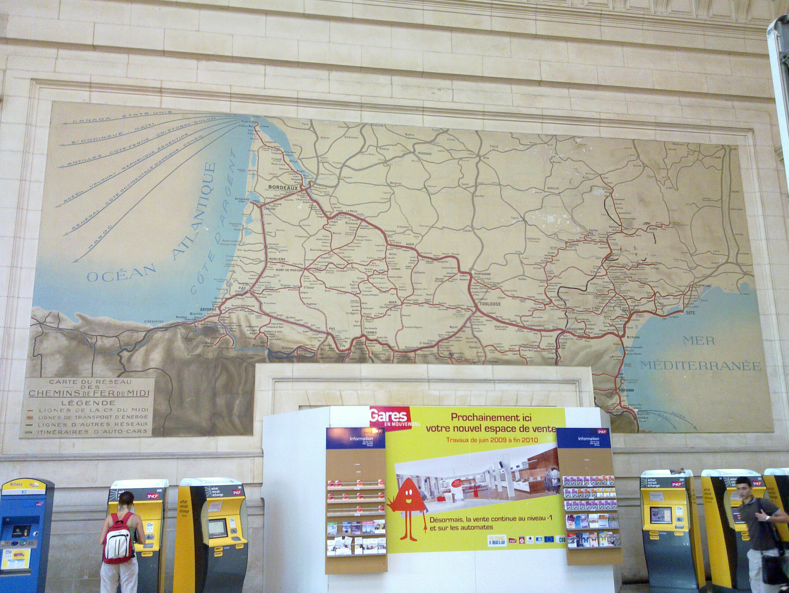 mural map in bordeaux st jean railway station